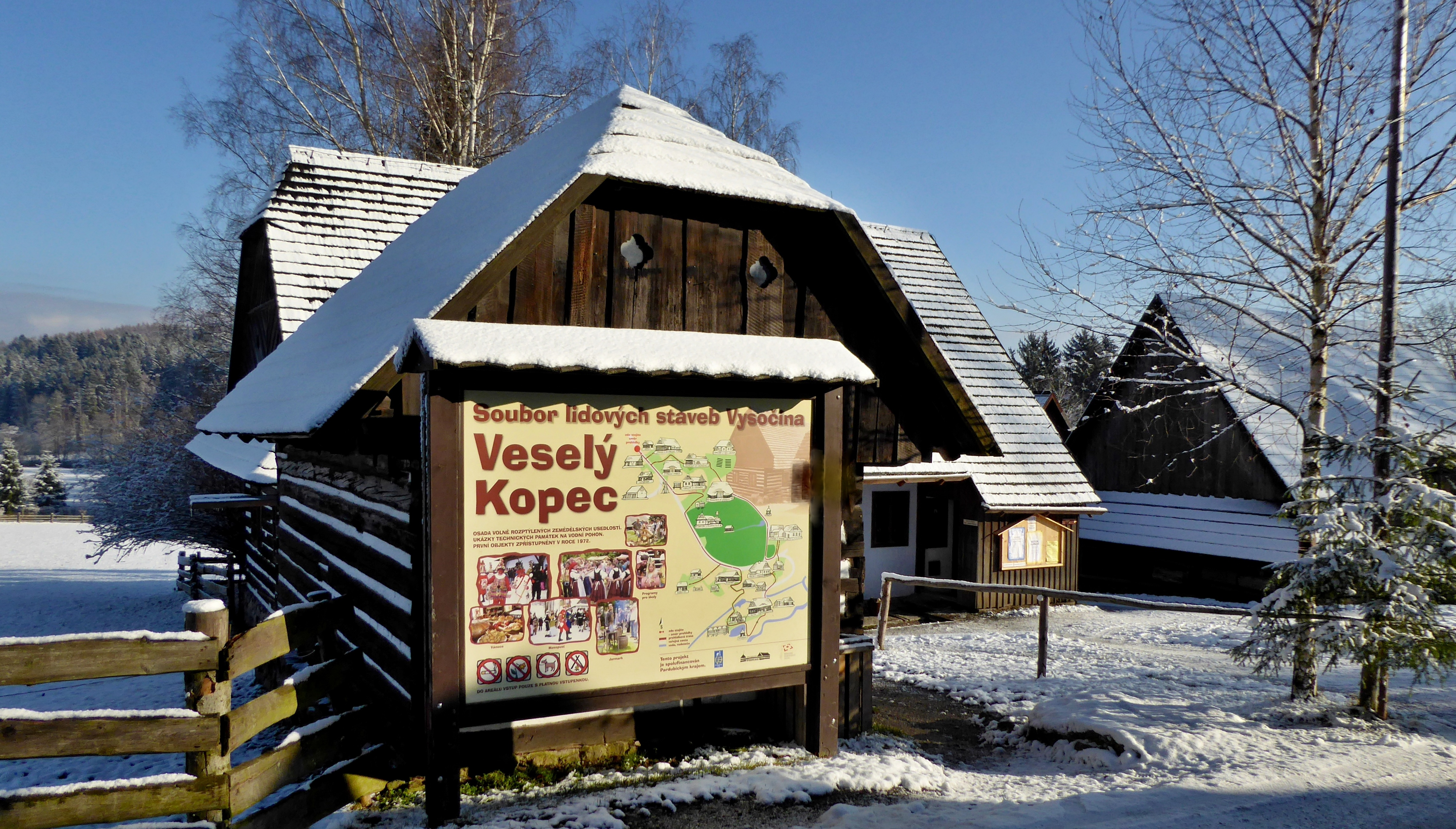 Entrance to the exposition Veselý Kopec in a Open-air Museum Vysočina, a part of the National Open-air Museum in the Czech Republic. Winter is associated annually with the Christmas tradition and tradition of the so-called Masopust. In the areal of exposition is hiking trail of the Club of Czech Tourists in the section: Dřevíkov - Veselý Kopec. Throughout the year, it goes on a public road. The enter to exposition only on tickets during organized events and exhibitions, in the season daily in the months of April to October. The exposition of museum from 1972 to 1981 under a name Set of Folk Buildings and Crafts Vysočina and from 1982 to 2018 a part of the Set of Folk Buildings Vysočina (from 2003 to 2018 within the National Heritage Institute of the Czech Republic). Photo-location: Czechia, Pardubice Region, municipality Vysočina, Merry Hill – small hamlet and exposition of the open-air museum. External links: Veselý Kopec, exposition of the open-air museum – website see Mapy.cz, tourist map - composition Veselý Kopec, aerial view see